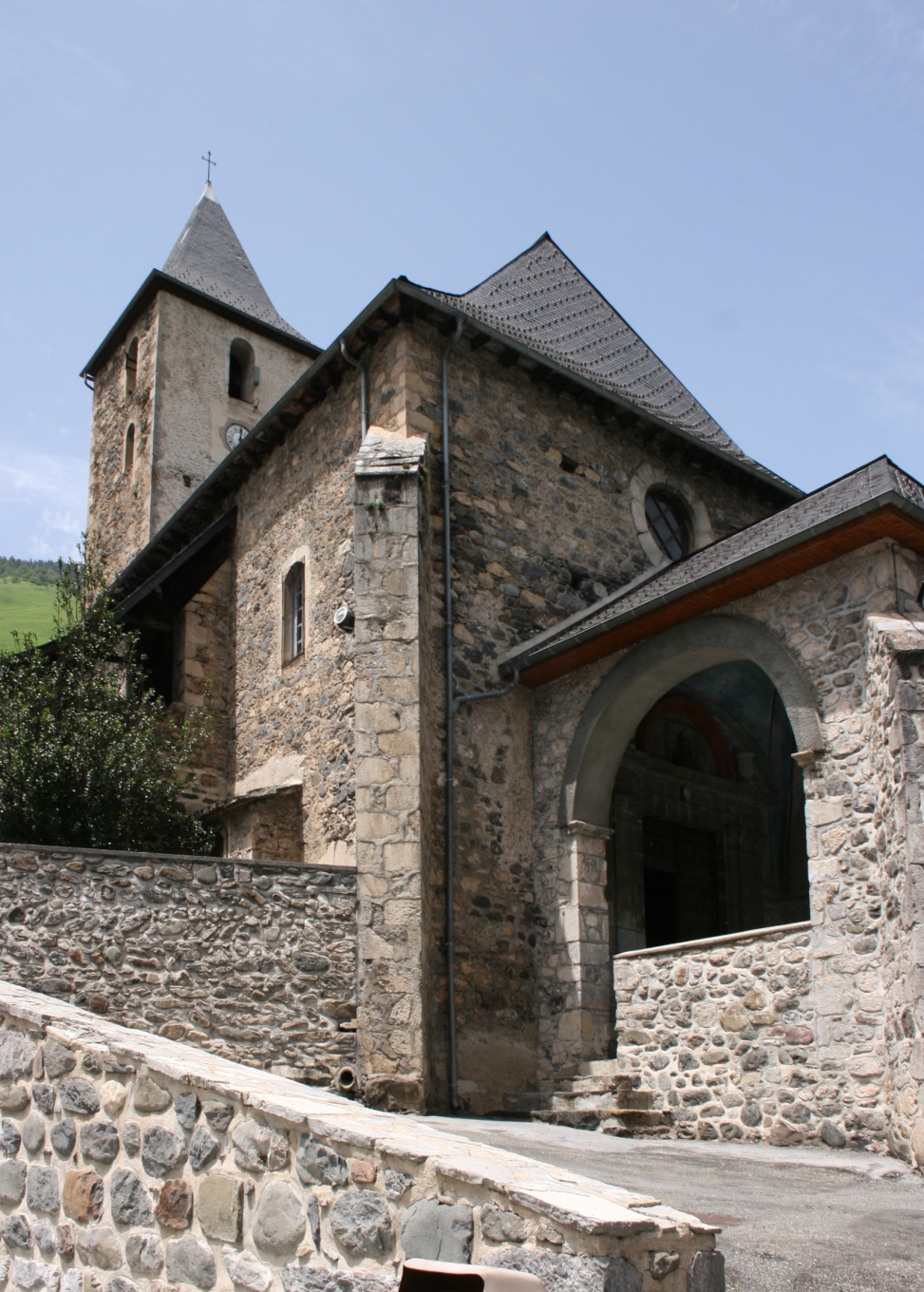 The church of the medieval village of Borce, placed at the upper end of the Aspe valley, Béarn (now Pyrénées-Atlantiques), France.